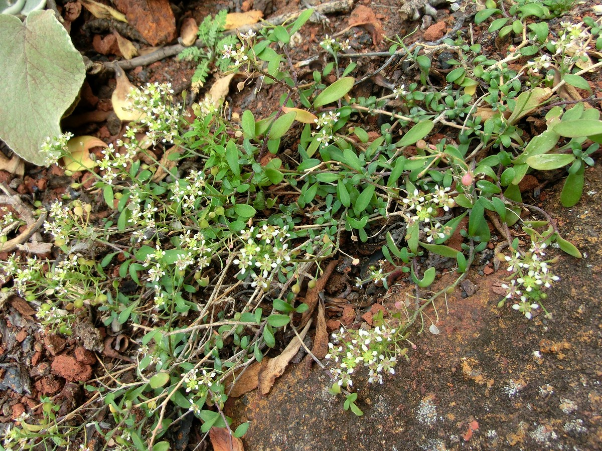 Lobularia canariensis. NW Tenerife, Punta de Lerma (W of Punta del Fraile), rocks above coastal street, ca. 100 m above sea level.